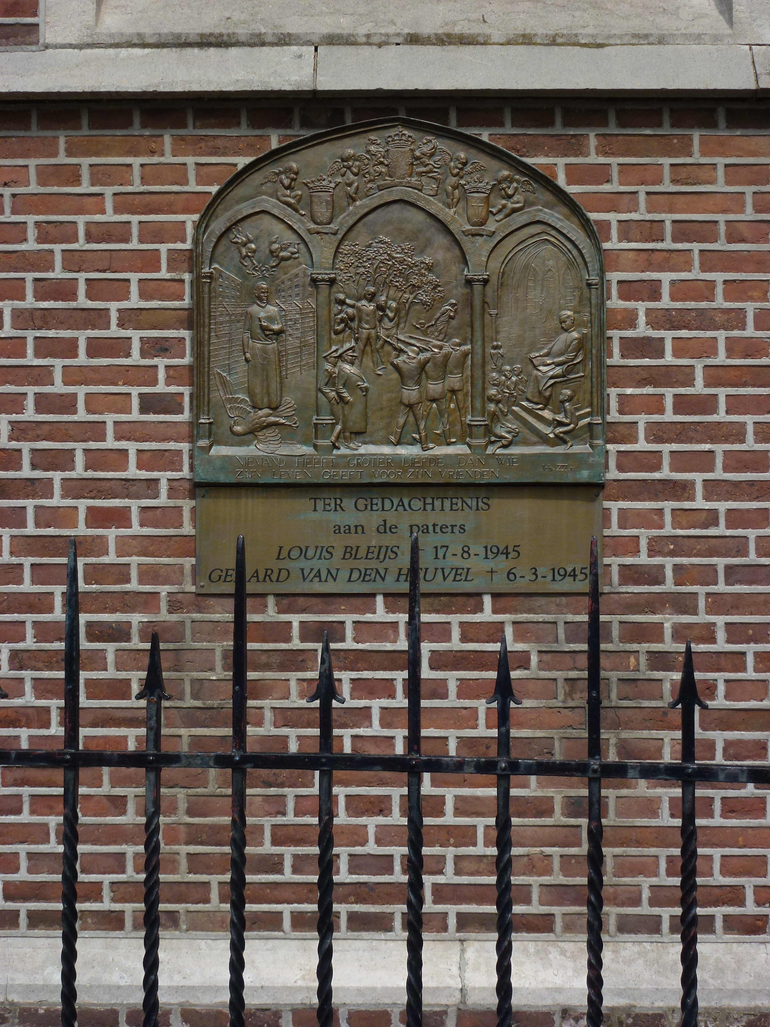 Maria Ten Hemel Opneming, Roermond, plaquette gesneuvelde paters